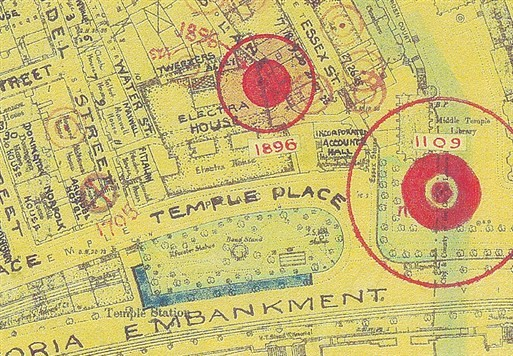 Bomb damage map Milford Land and Temple.